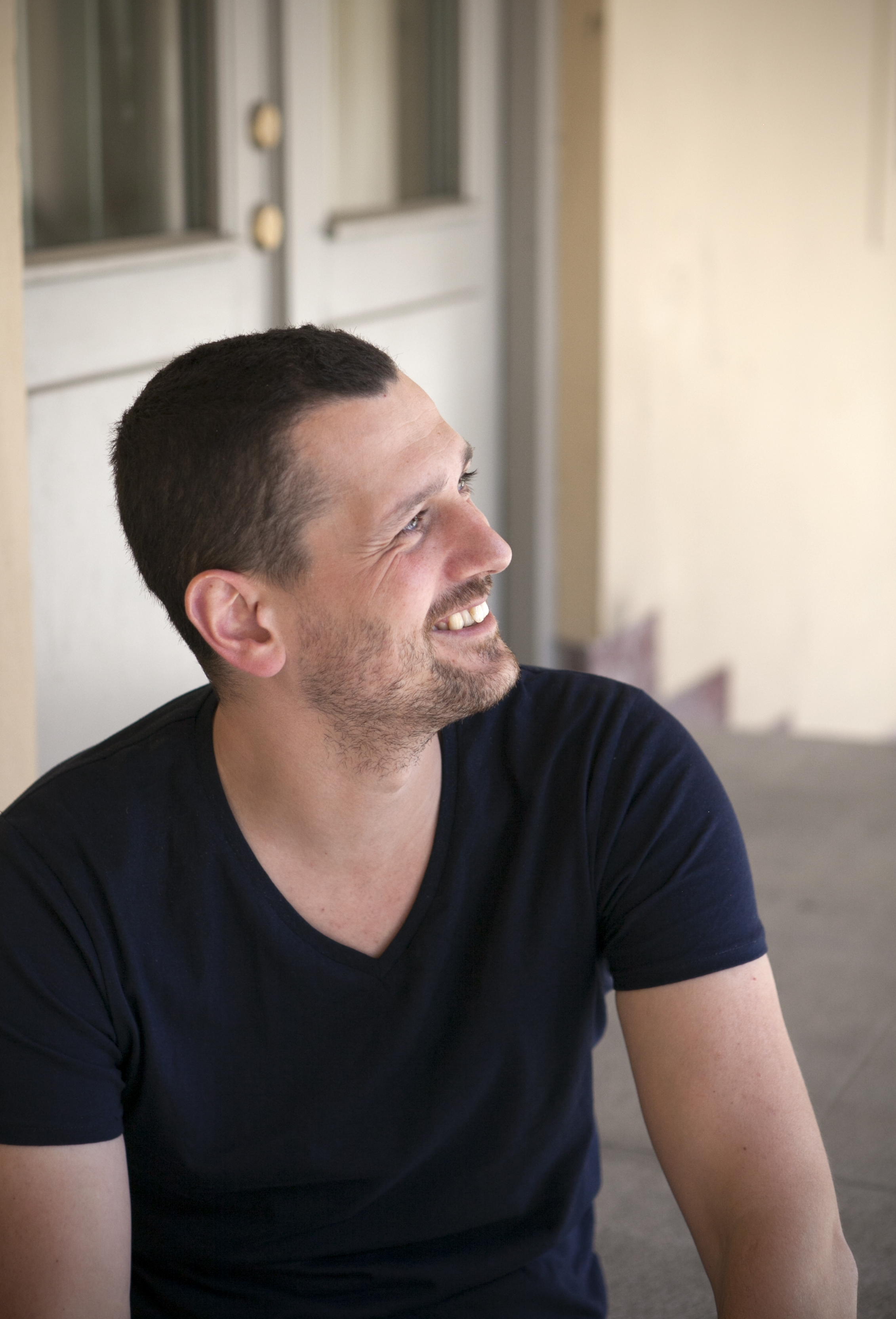 Adnan Dibrani 2018 Member of Parliament